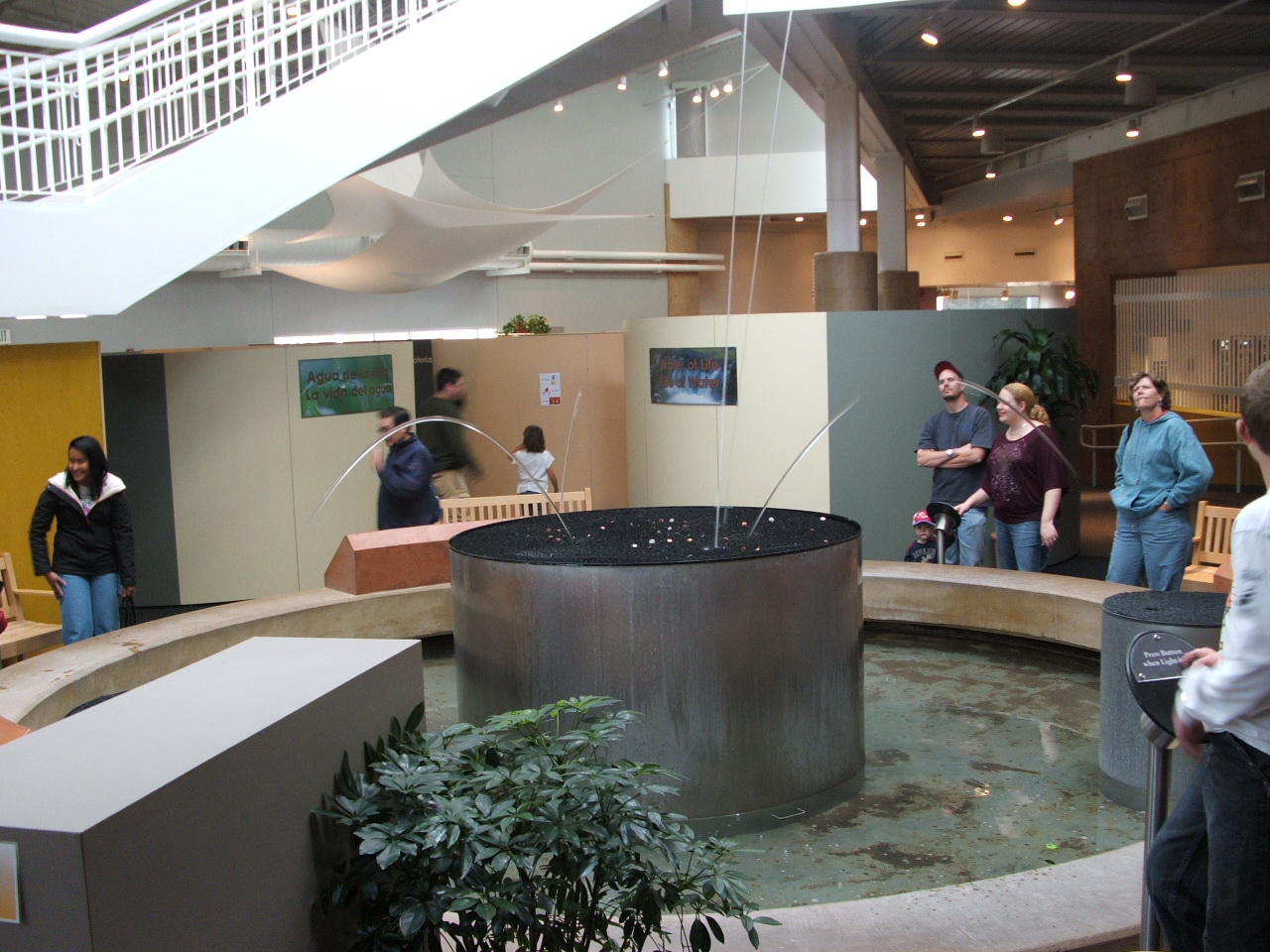 The inside of the ¡Explora! Science Center and Children's Museum in Albuquerque, New Mexico.